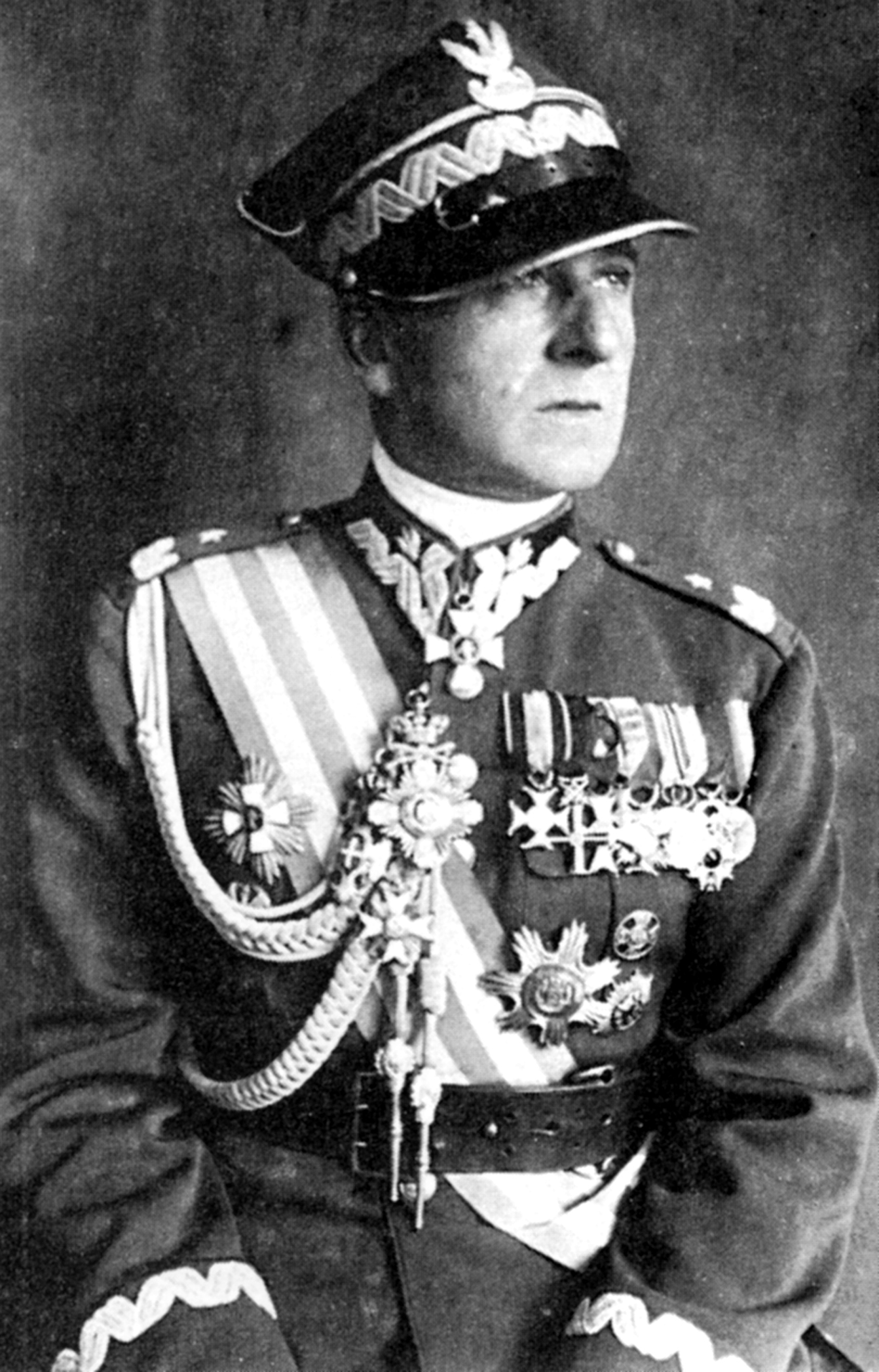 gen. Bolesław Wieniawa-Długoszowski 1932